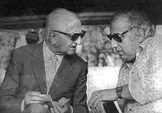 Enzo Ferrari, the founder of Ferrari, and Marcello Sabbatini, an Italian automotive journalist, talking.